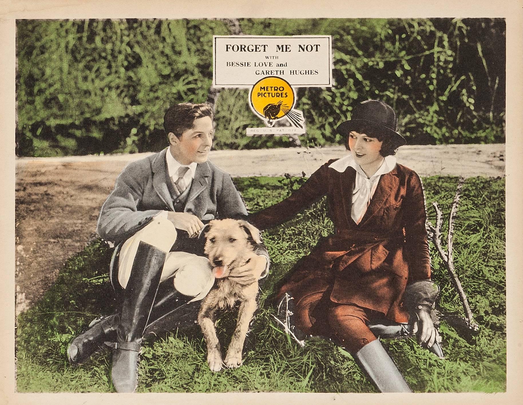 Forget Me Not is a 1922 American silent melodrama film directed by W. S. Van Dyke and distributed by Metro Pictures. This is a lobby card for the film.